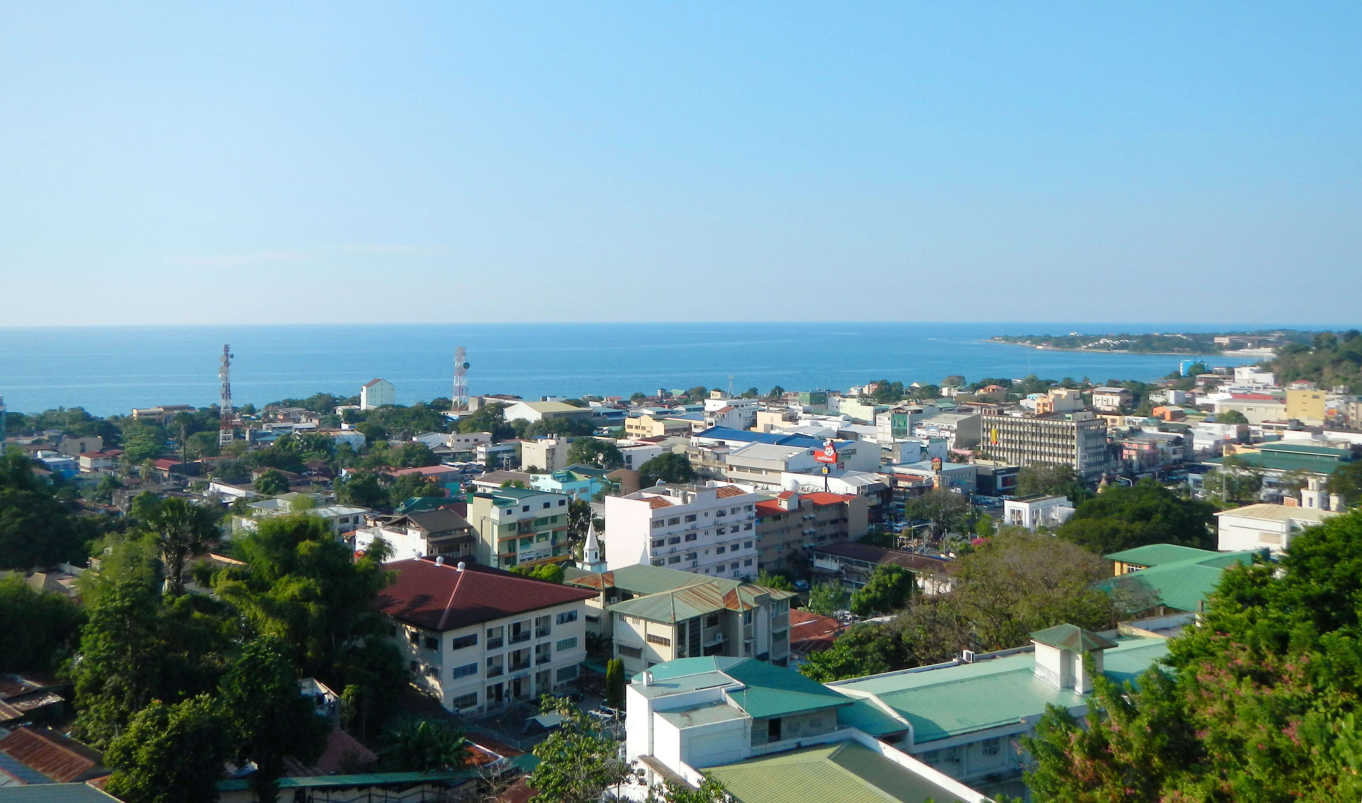 San Fernando City, La Union [1][2][3][4] La Union[5]